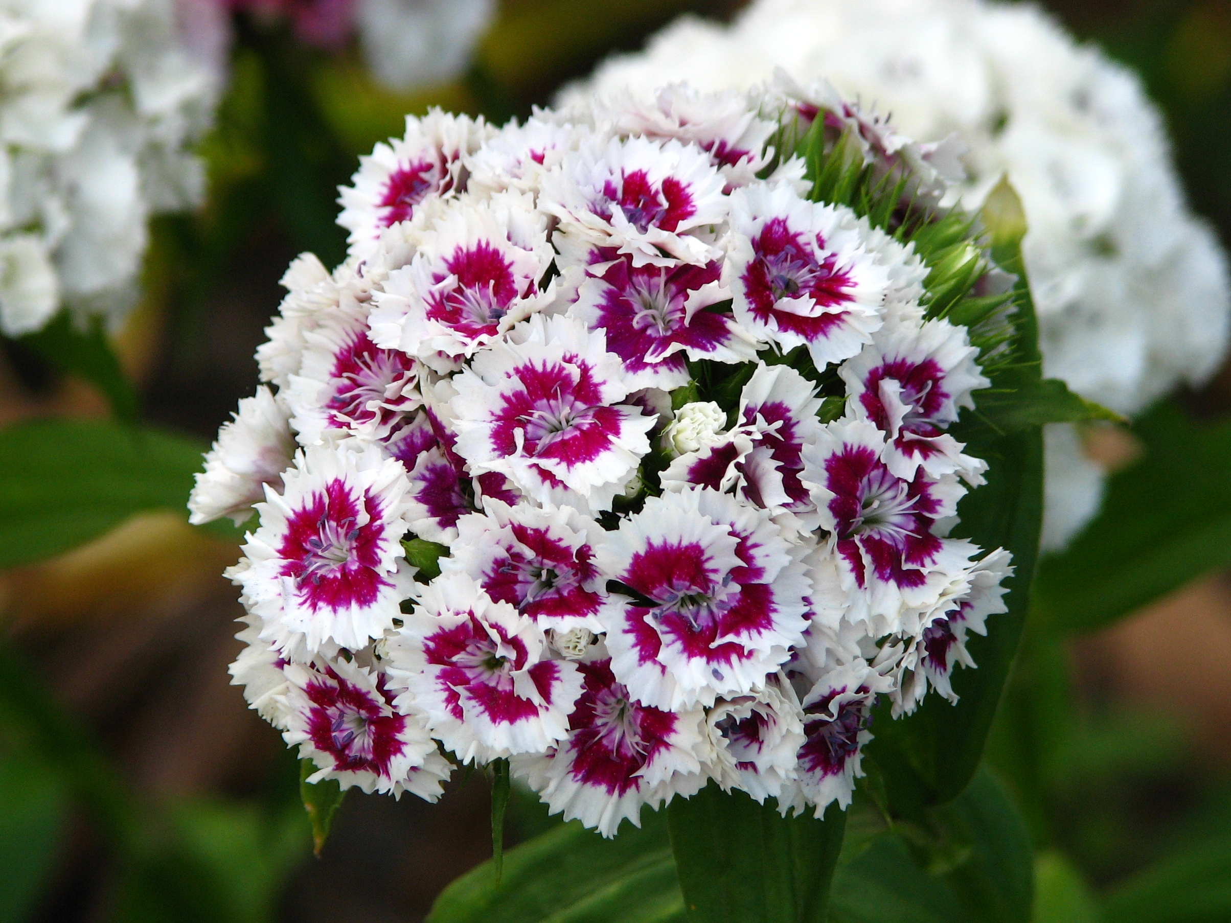 Sweet William (Dianthus barbatus). Flower beds in the Moscow Botanical Garden of Academy of Sciences.